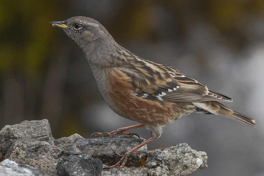 The species Alpine Accentor had been photographed during GoingWild's birding trip at Lungthu in Pangolakha WLS at East Sikkim, India on 08.11.2015.